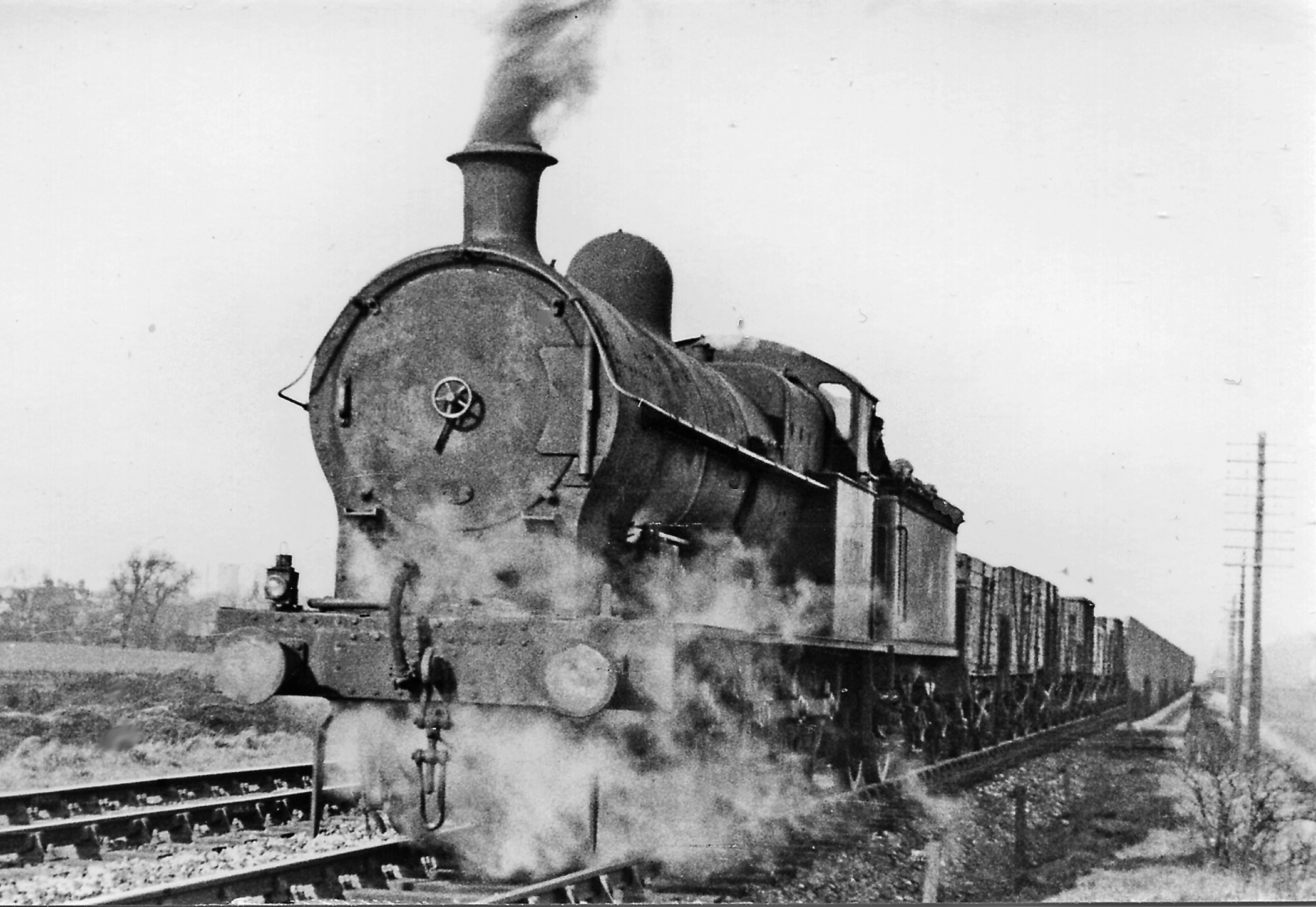 Walsall - Wednesbury freight near Bescot. View northward, towards Walsall: ex-LNW South Staffordshire line (Walsall - Dudley). After crossing over the original Grand Junction line from Birmingham to Wolverhampton via Bescot, this local freight originating from Walsall is proceeding south - just south of where the M6 now crosses the railway. The locomotive is ex-LNW No. 9171 - still unrenumbered in 1951, built as a G1 in 10/1912 and withdrawn not long after this photograph in 2/52.